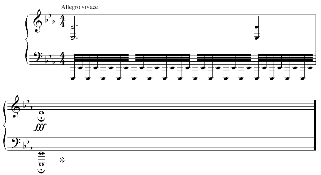 1812 Overture - Tchaikovsky (last bars) - arranged: Stepan Esipoff